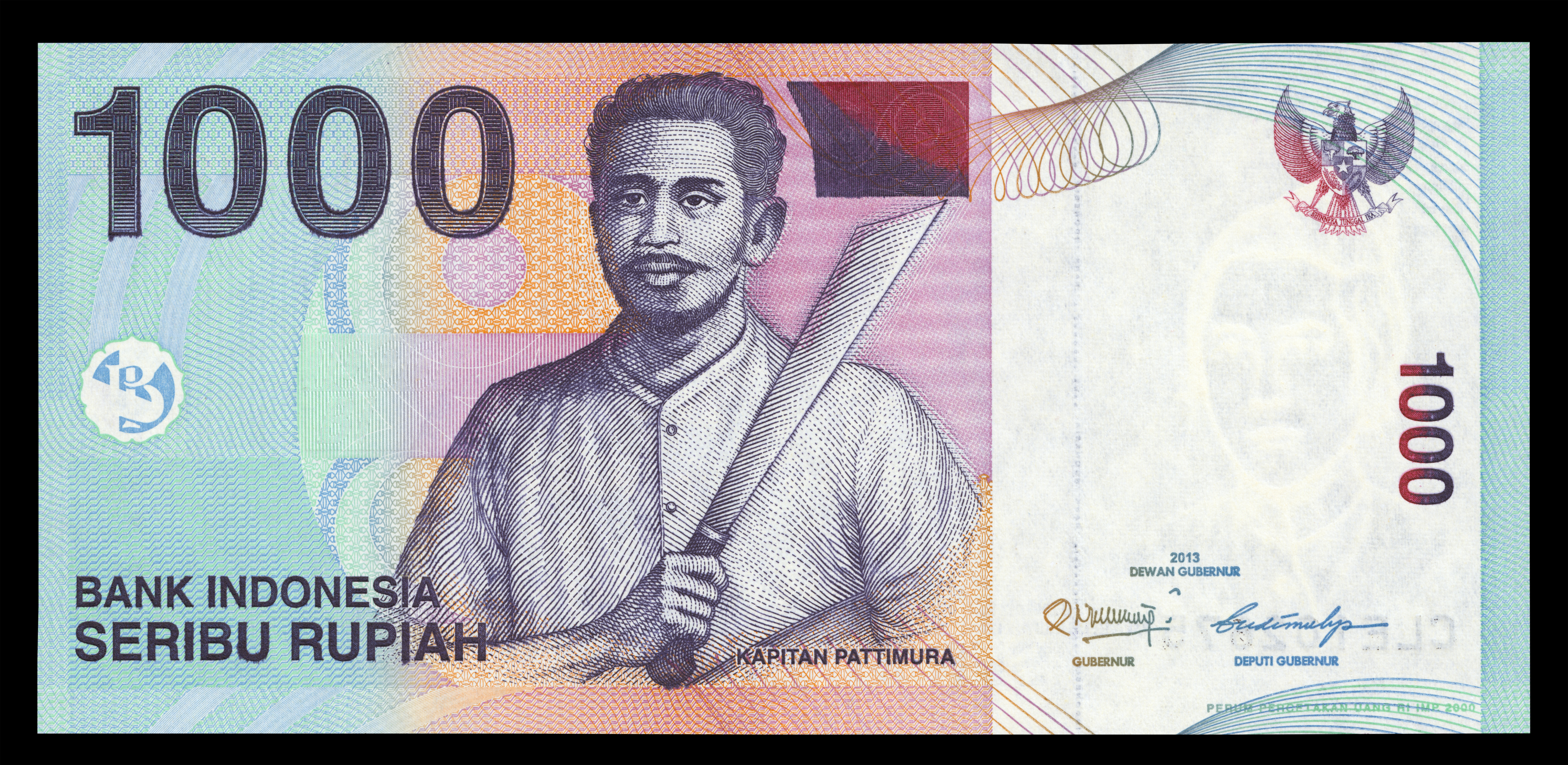 1000 rupiah bill, 2014 series, processed, obverse